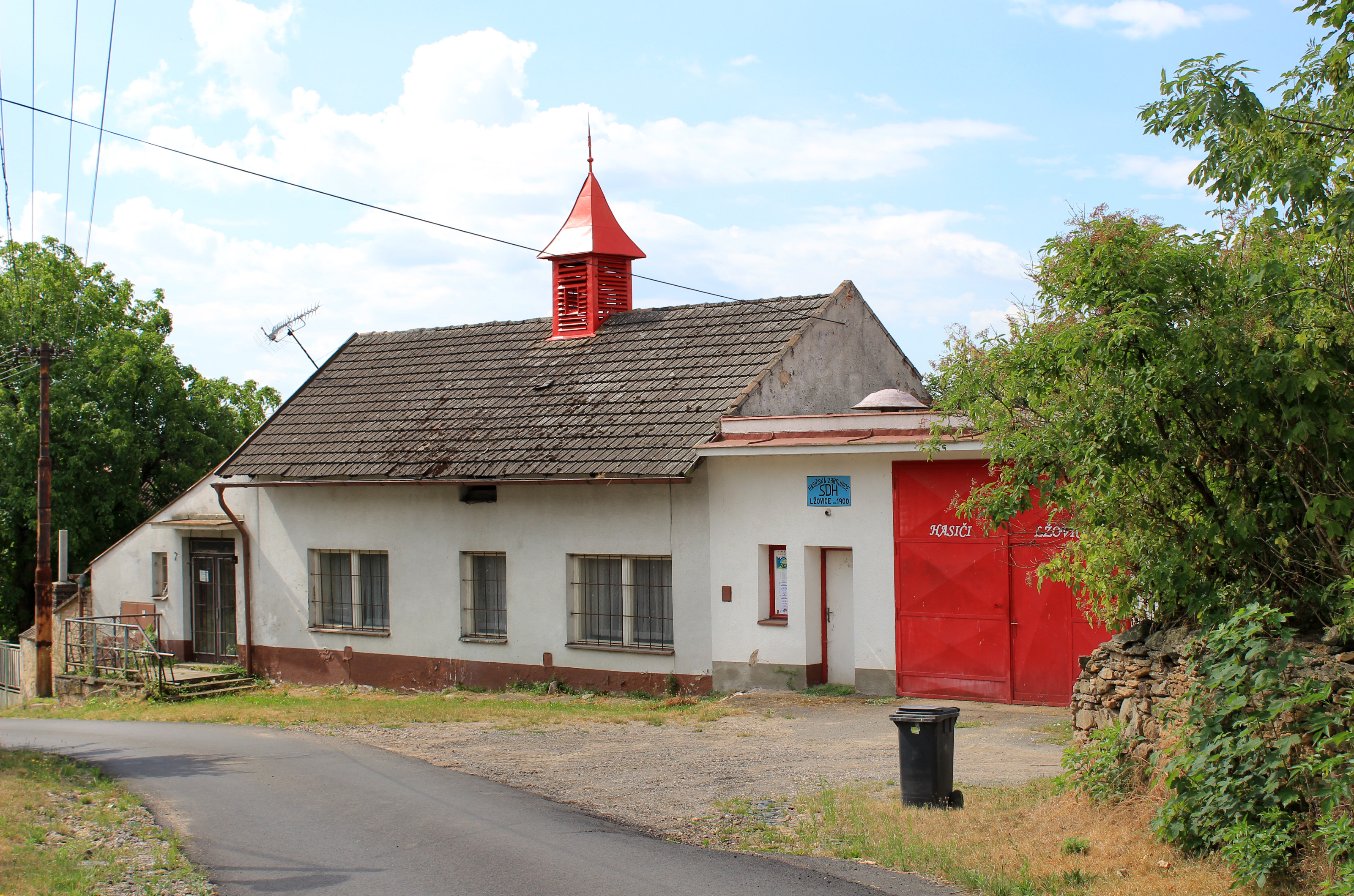 Fire house in Lžovice, part of Týnec nad Labem, Czech Republic.